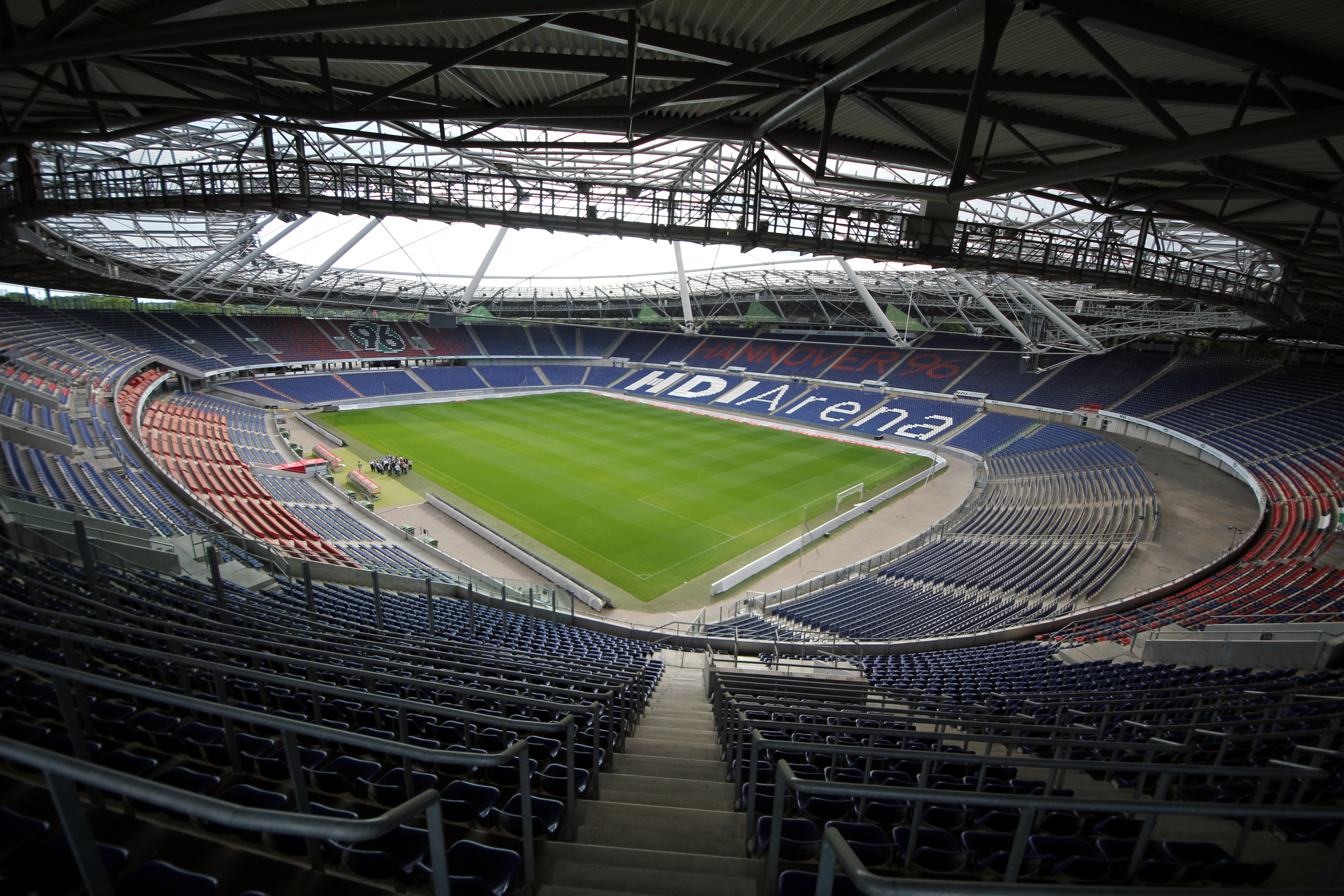 The HDI-Arena is a football stadium in Hanover.